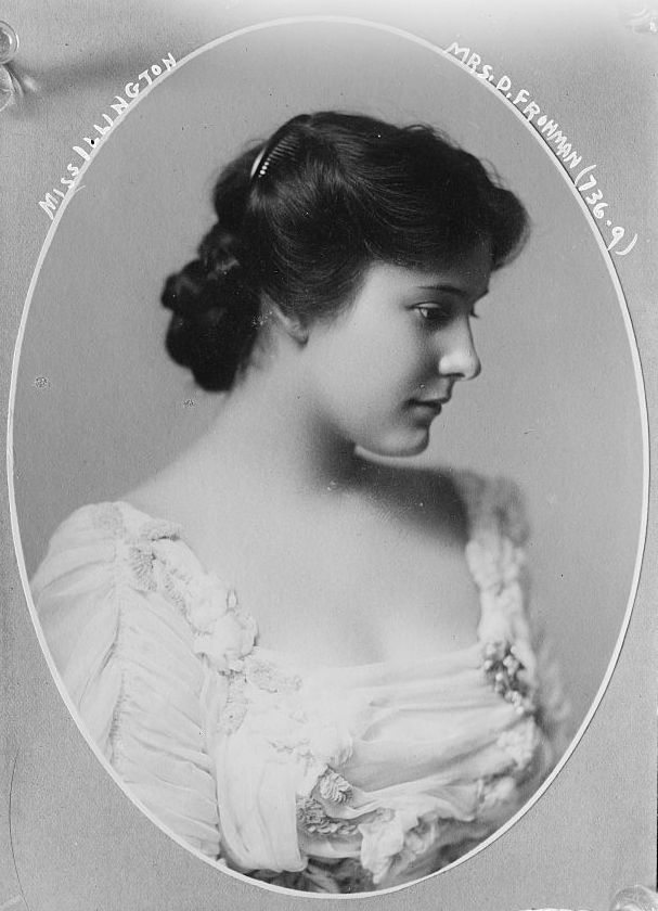 photograph of Margaret Illington